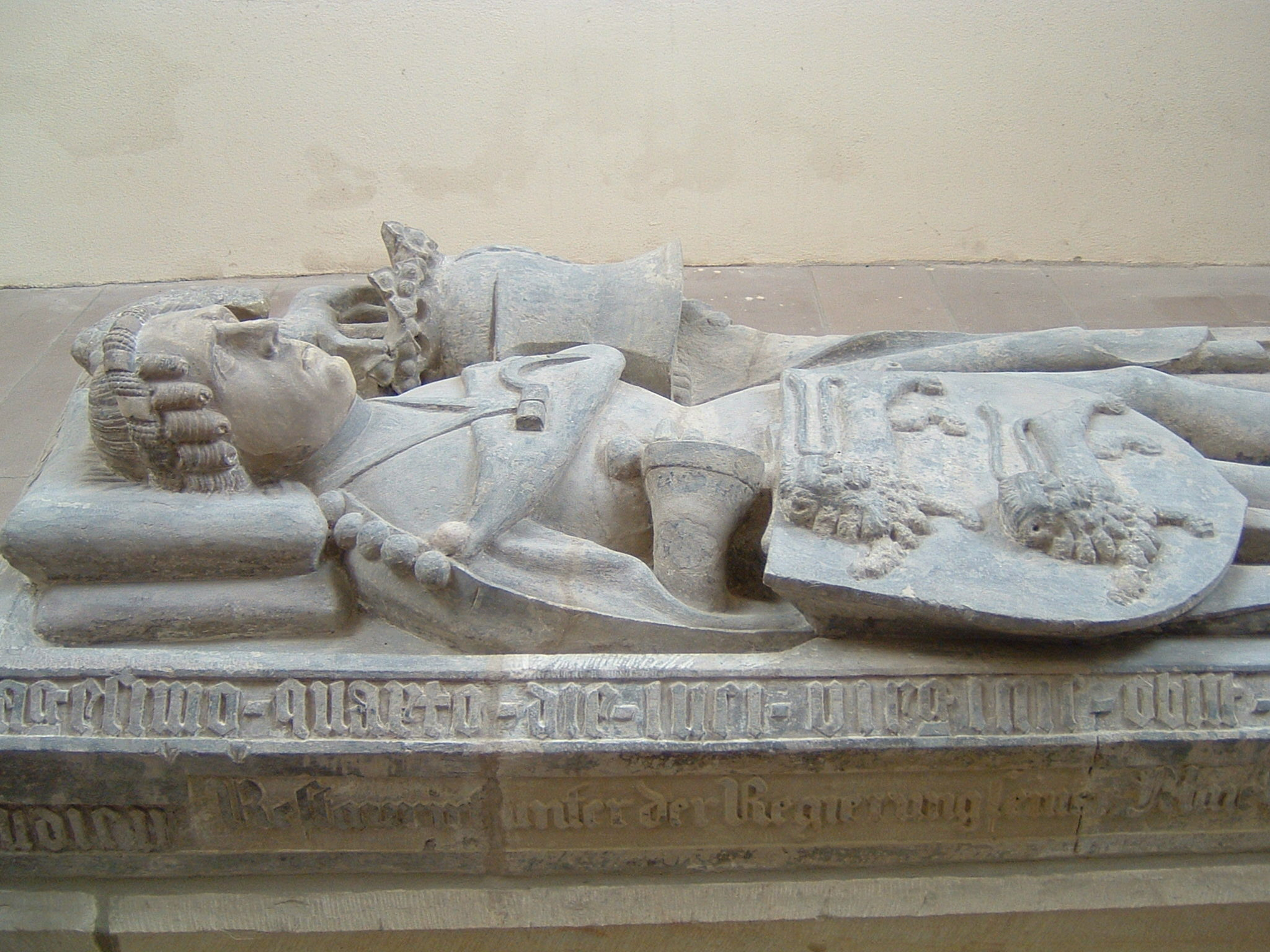 Tomb of Otto the Quade, Prince of Göttingen, in convent Wiebrechtshausen, Germany